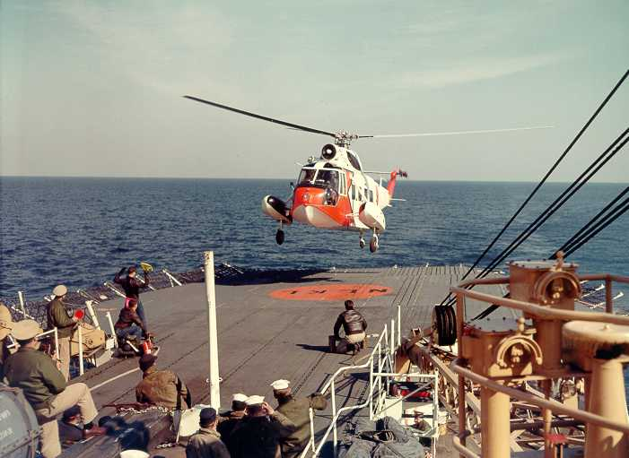 A U.S. Coast Guard Sikorsky HH-52A Seaguard lands on board the USCGC Westwind (WAGB-281) in Gravesend Bay, New York (USA), in 1964.